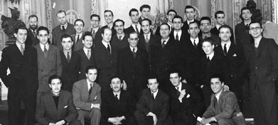 Os Independentes 3º plano: Cruz Louro, Silva; João Costa, Mingachos, Batista de Almeida, António Sampaio, Barboza, Armando M., Távora, Fernando Lanhas. 2º plano: Zé Maria, Eduardo Tavares, Júlio Resende, Guilherme Camarinha, Joaquim Meireles, Director do Ateneu, Mário Truta, António Ramos de Almeida, Gil Azevedo, Pedro Homem de Melo, António Lino, Aníbal Alcino, Manuel Pereira da Silva, João David 1º plano: Arlindo Rocha, Amândio Silva, David Sousa, Nadir Afonso, Pimentel, Borrego.